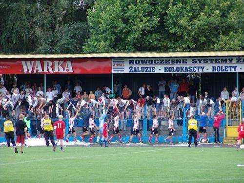 Kibiiiice